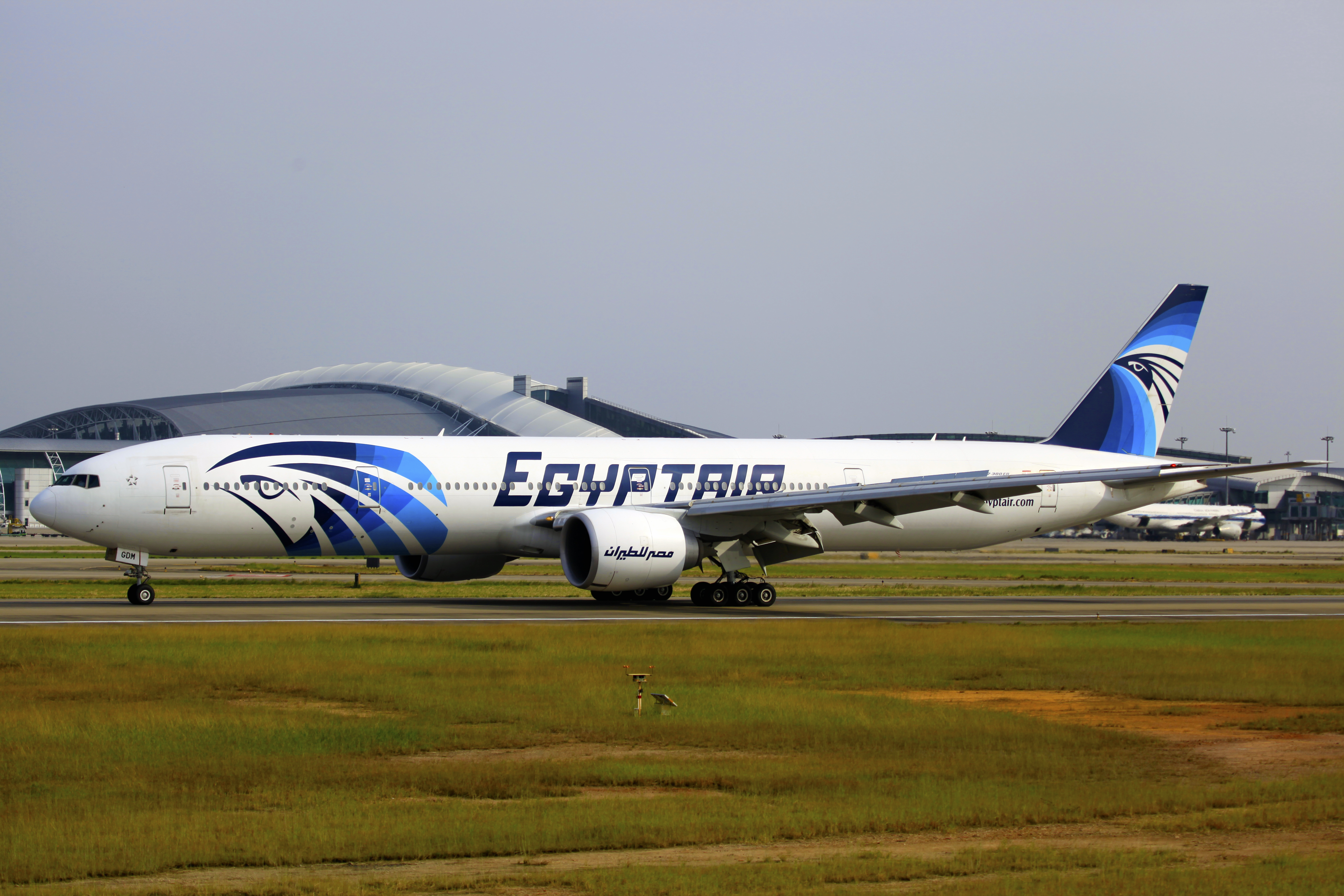 SU-GDM | EgyptAir | Boeing 777-36N(ER) | Guangzhou Baiyun International Airport [CAN]